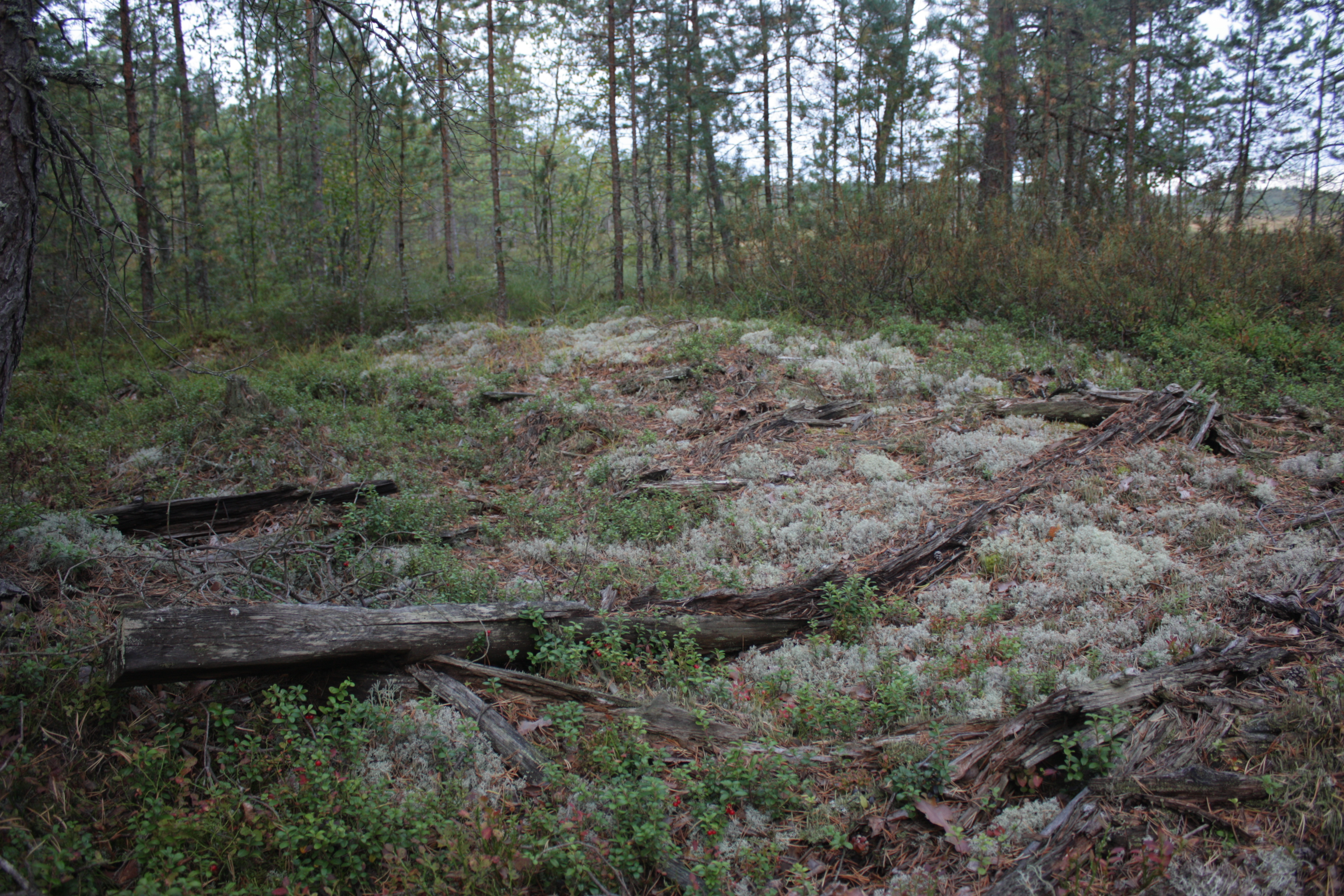 Remains of a barn on the edge of Vajosuo in Kurjenrahka National Park, Finland. The barn has been used to either dry out peat litter for cattle or to store hay collected from the bog.